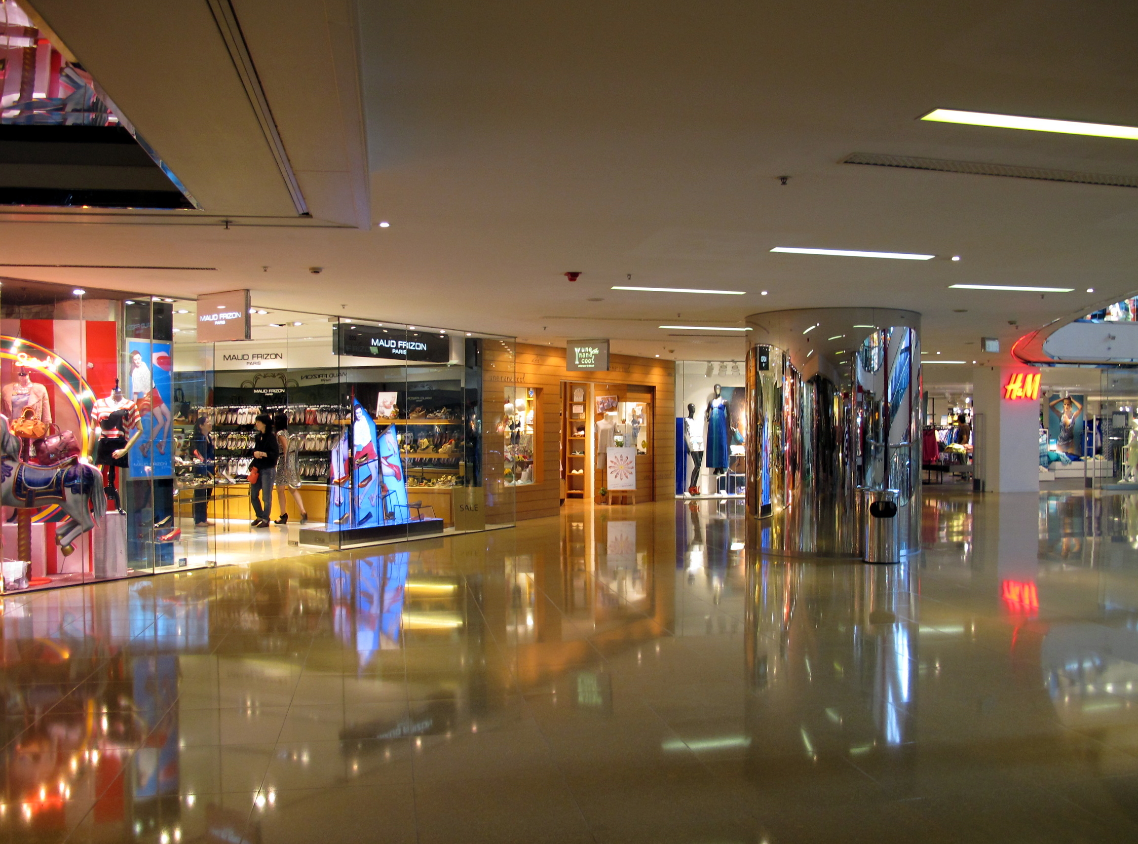 Cityplaza Phase 1 Level 3 太古城中心一期3樓